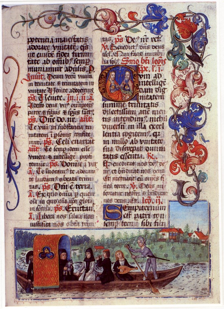 Cistercian abbot Johannes Stantenat of Salem, monks, and musicians boating on the Lake of Constance.